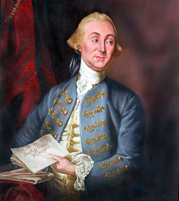 A portrait of the British Province of Georgia's last Royal Governor, James Wright.